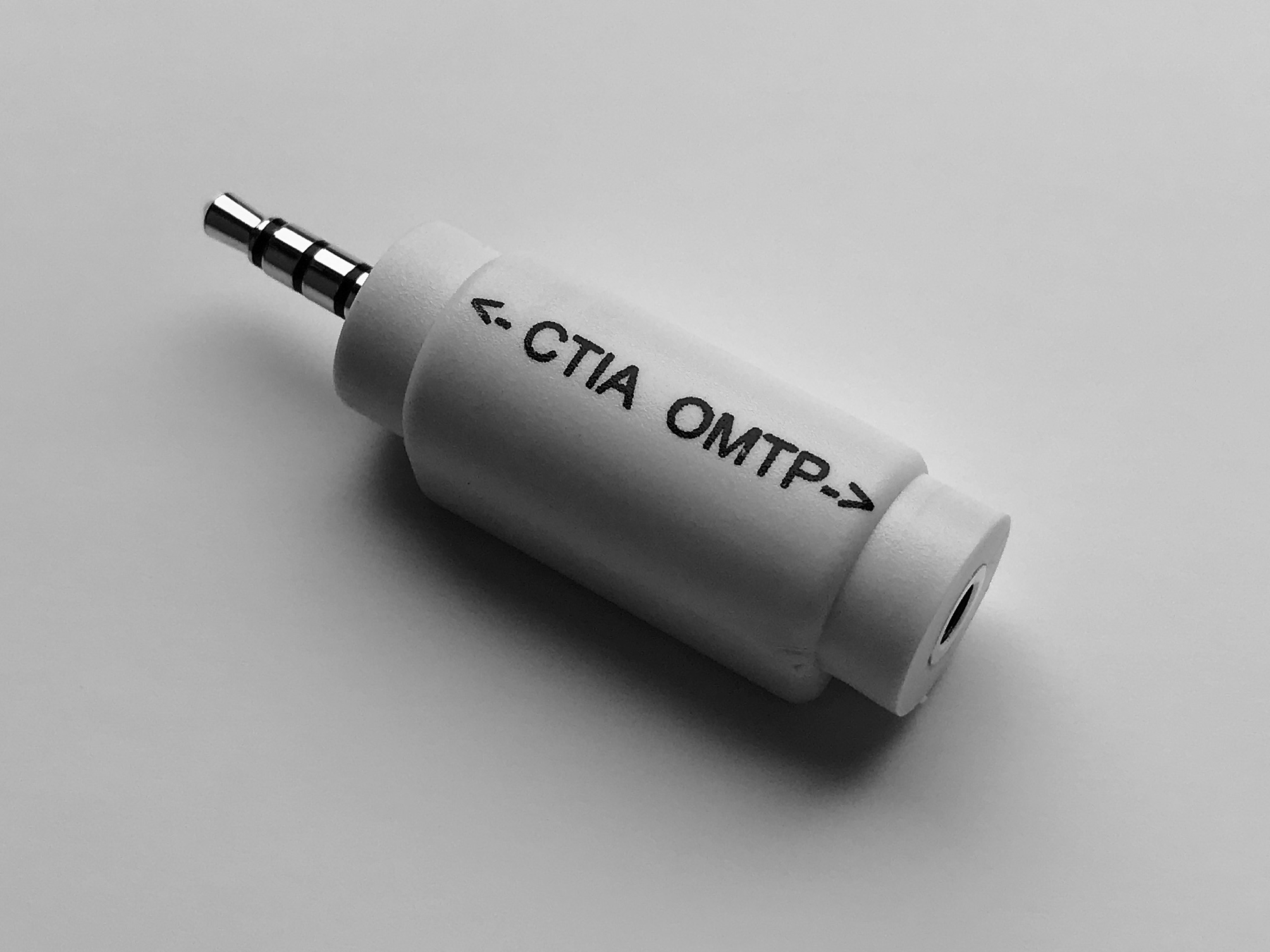 Adapter between the two different pin assignments OMTP and CTIA.